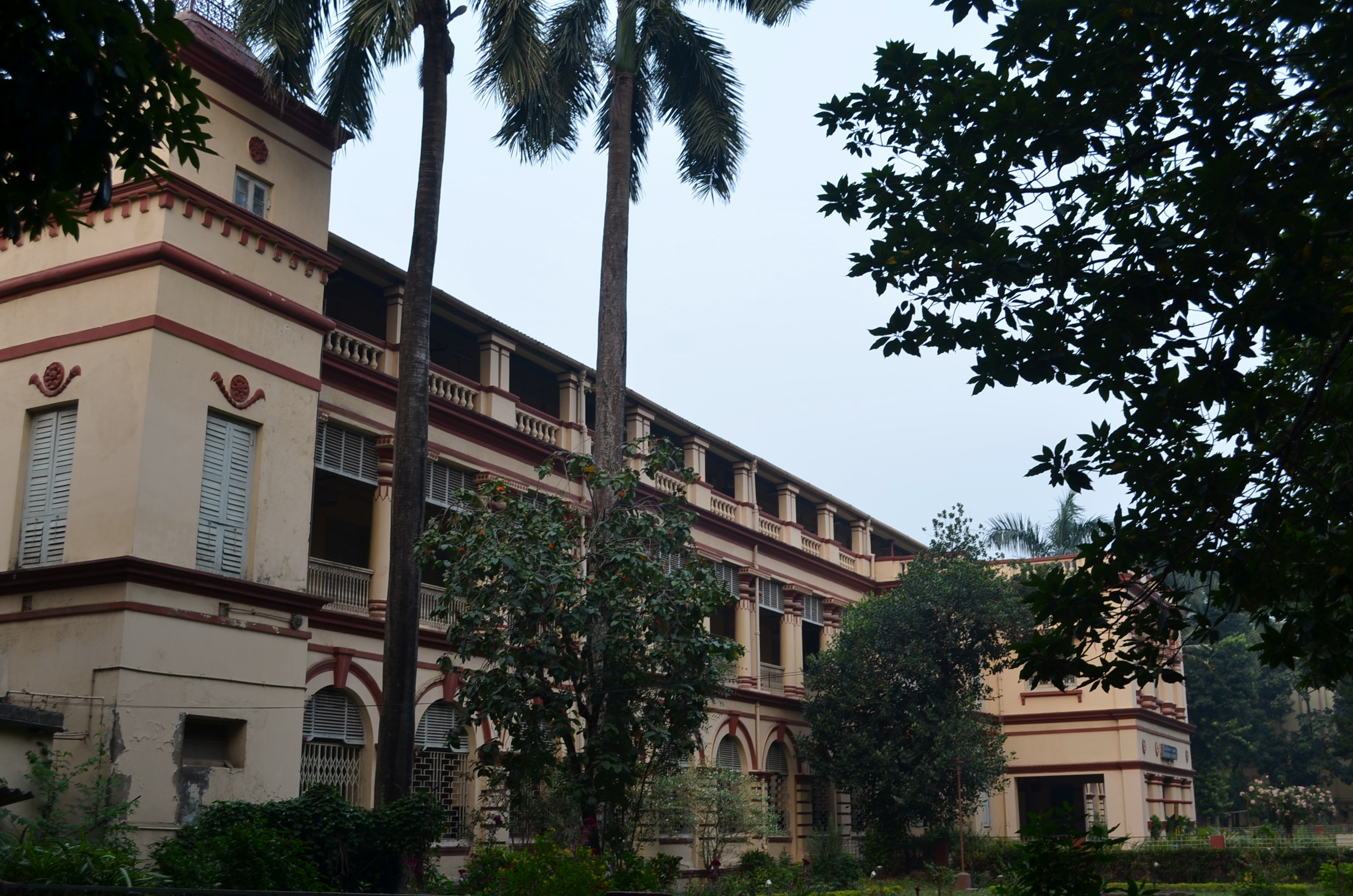 The main administrative building of Jadavpur University